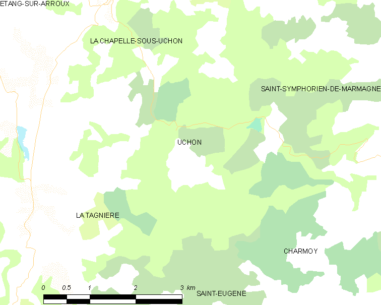 Map of French municipality